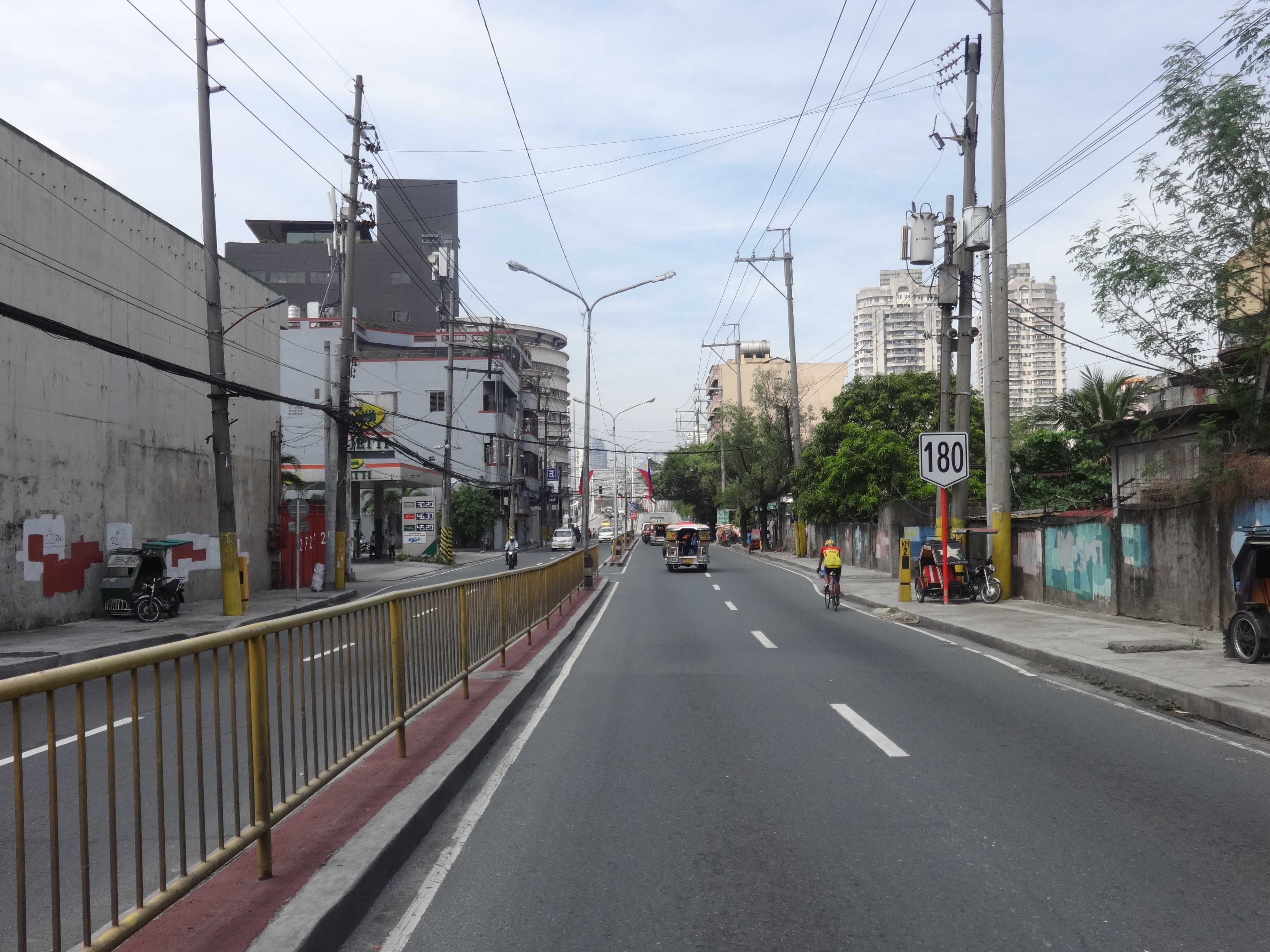 P. Casal Street in Quiapo, Manila. This road is part of Route 180, designated by DPWH